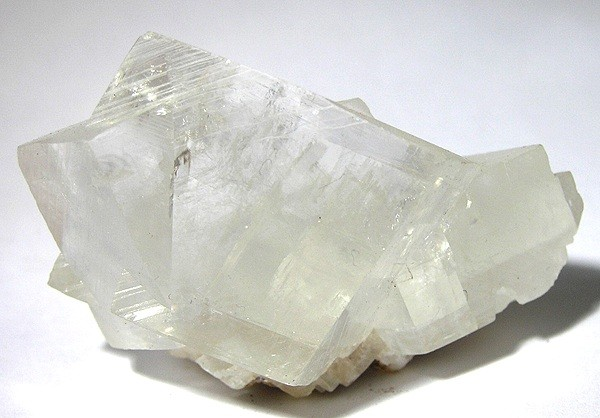 Dolomite Locality: Azcárate Quarry, Eugui, Esteribar, Navarre, Spain (Locality at ) Size: 5.1 x 4.2 x 3.4 cm. This is a fine, gemmy, transparent superb Spanish dolomite specimen. Here you have an exquisite, transparent rhomb measuring 4 cm tip-to-tip, integrown with some smaller rhombs. One of the close-ups shows you the luster and transparency as it appears in person. Dolomite is almost always a plain, unassuming "accessory" mineral on specimens, but in the case of these Spanish ones, it is a gorgeous mineral specimen in and of itself.